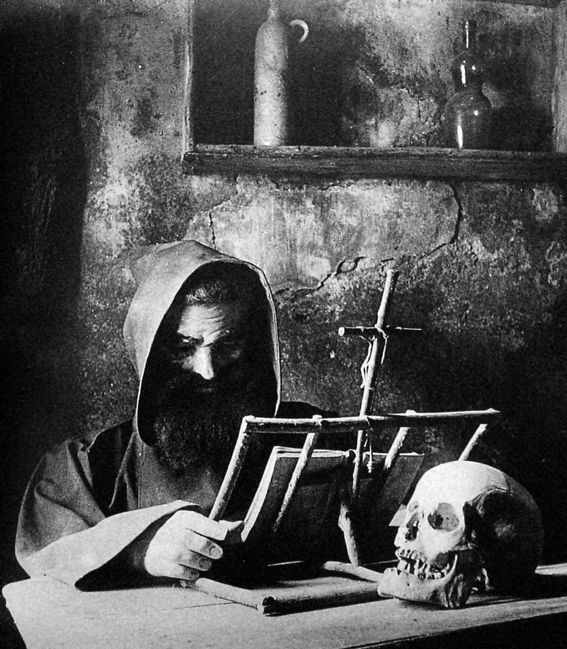 The monk, a mechanical automata that used to be in the cabana de l’ermità (the “hermit’s cabin”) in the Parc del Laberint d’Horta in Barcelona, Catalonia (Spain).